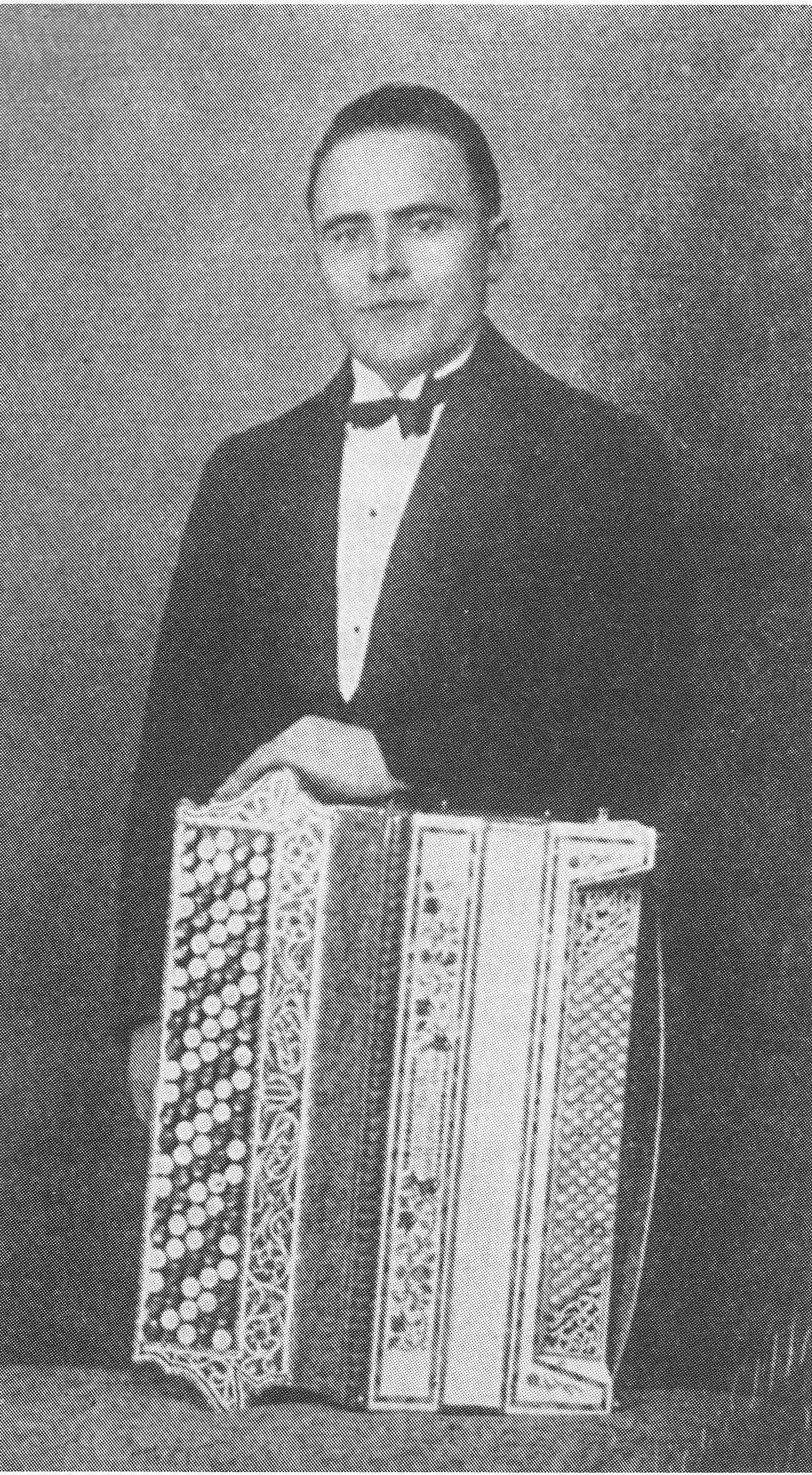 Leander Norrback